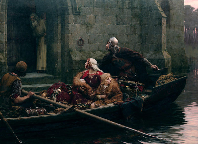 In time of Peril. Oil on canvas. Mackelvie Trust Collection, Auckland Art Gallery Toi o Tamaki